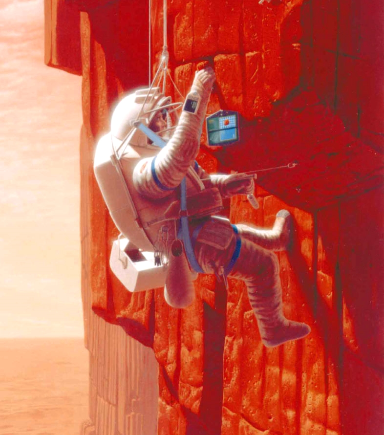 Front page of The Reference Mission of the NASA Mars Exploration Study (1997)